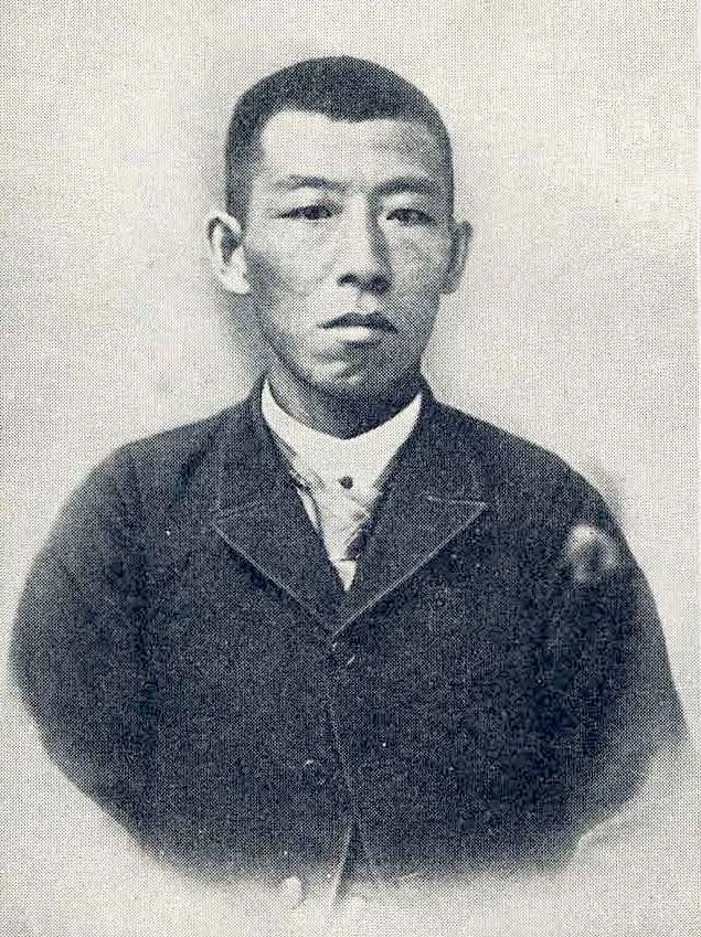 Inō Kanori 伊能嘉矩